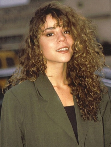 Mariah Carey exiting the Shepherd's Bush Theatre after promoting her single "Vision of Love" on The Wogan Show, in 1990.